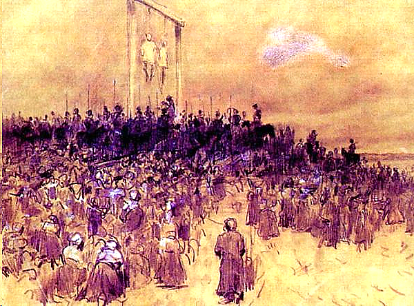 Hanging Polish January insurgents by Russians in Šiauliai